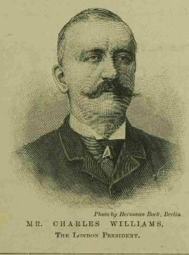 An illustrated portrait of Charles Williams, originally published in The Illustrated London News (page 403, September 30, 1893 issue).